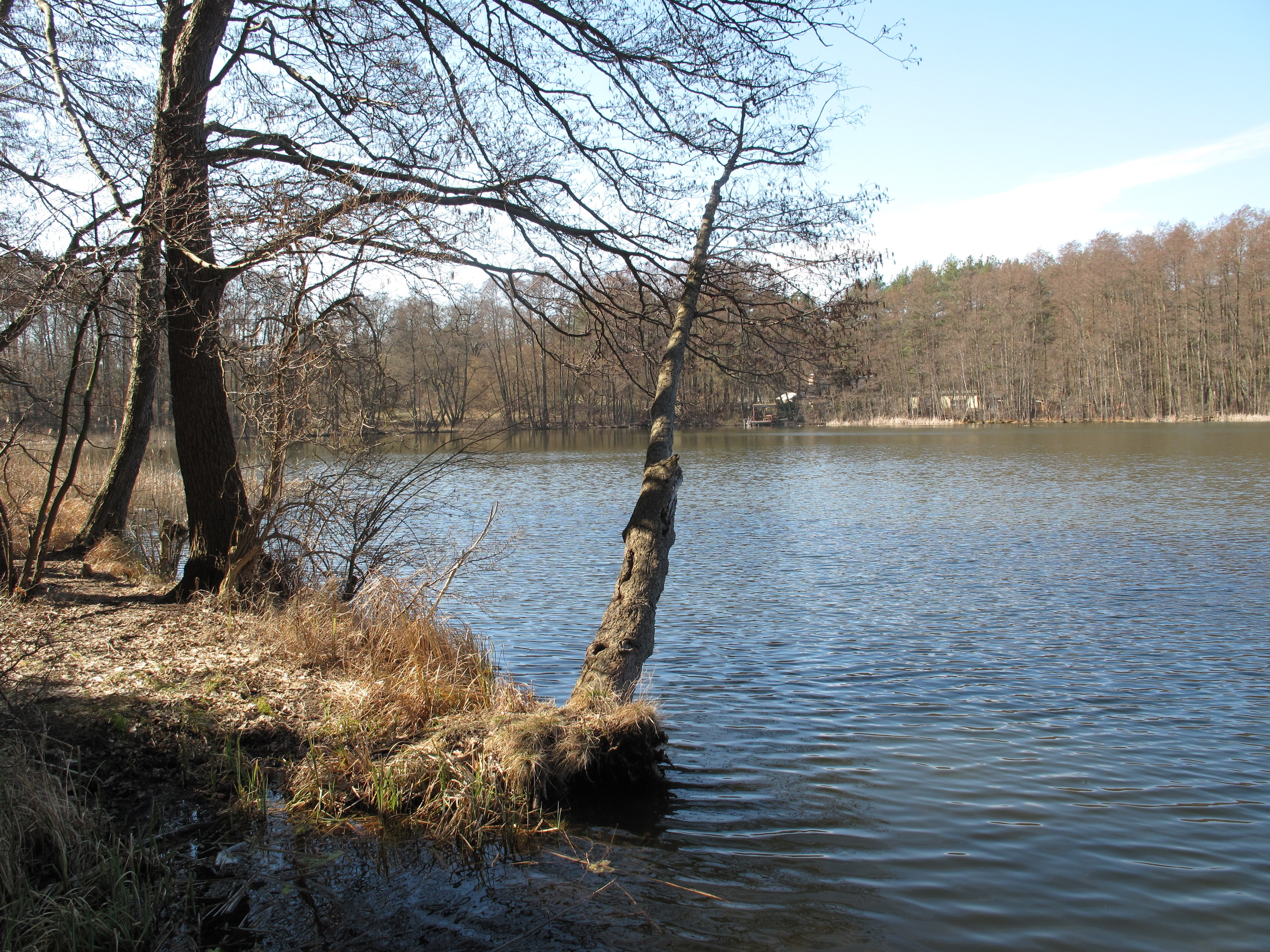 View of the southeastern shore of the Weiße See to southwest. The Weißer See (german for: white lake) is a lake in Buckow, District Märkisch-Oderland, Brandenburg, Germany. The lake covers 5,8 hectare and has a depth of max. 3,5 meters. Separated by a small land spit the lake borders to the southeastern bay of the Schermützelsee. The lake is situated in the hill country „Märkische Schweiz“ and in the Märkische Schweiz Nature Park.